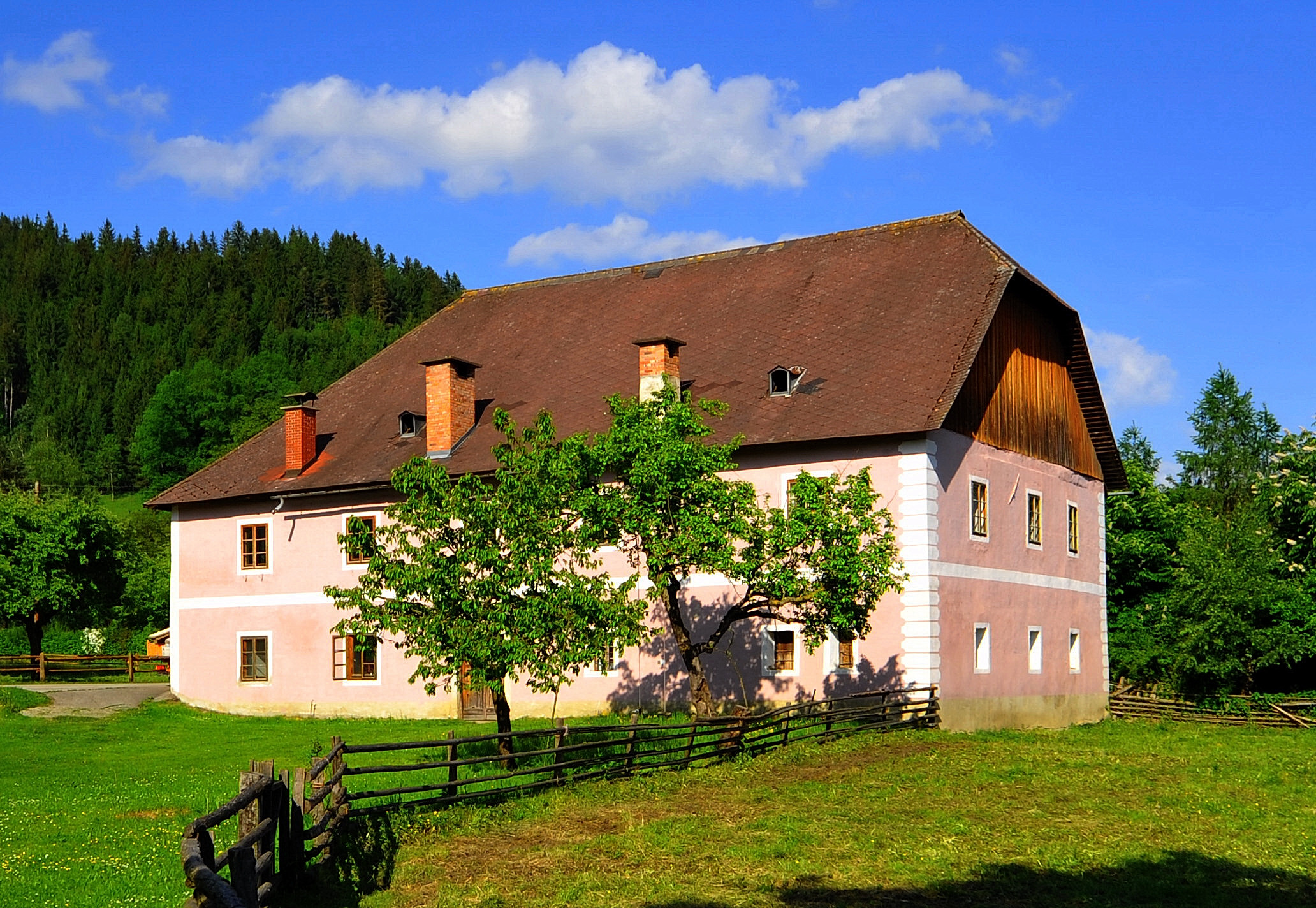 Former rectory from the year 1727 in Glantschach #1, market town Liebenfels, district Sankt Veit, Carinthia, Austria, EU